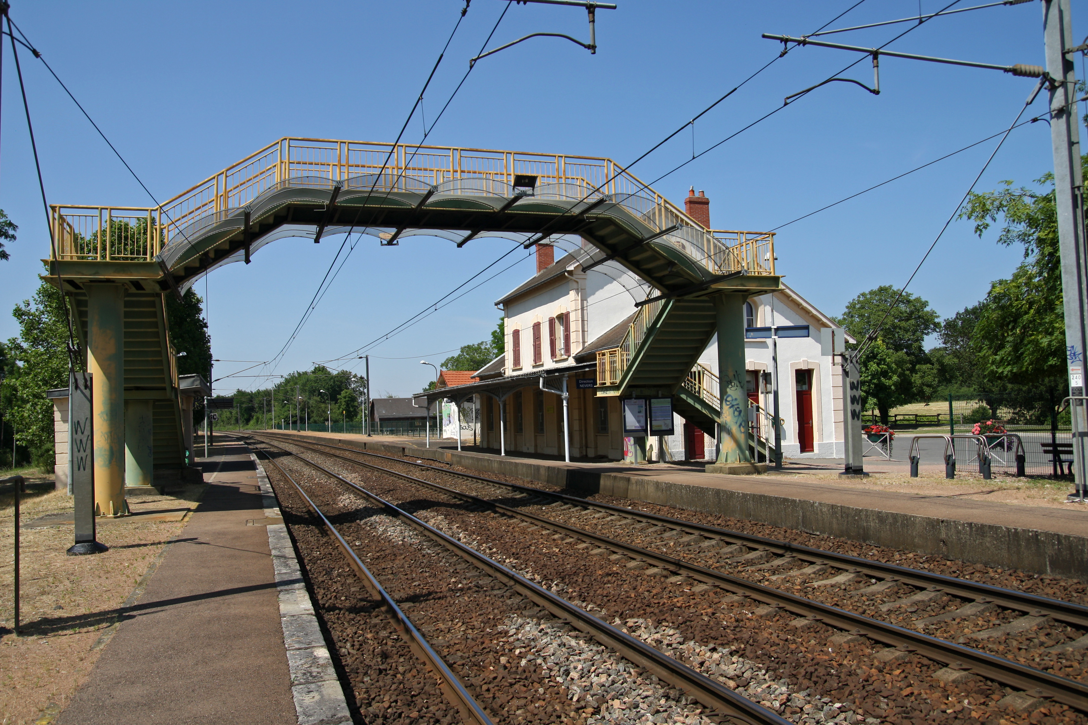 Platforms of Pougues-les-Eaux station